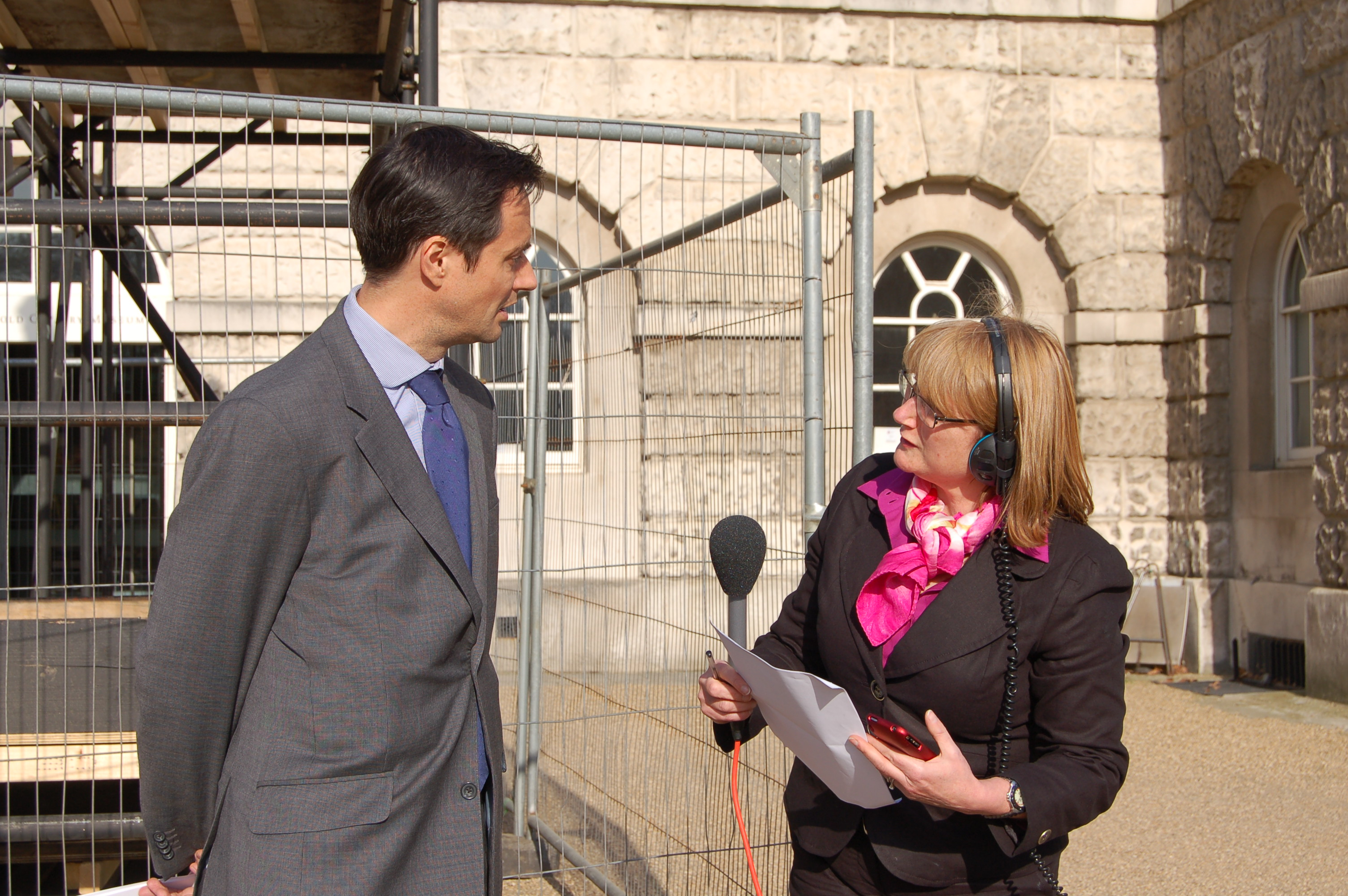 Interview on the 2010 General Election, April 2010 on Horse Guards Parade